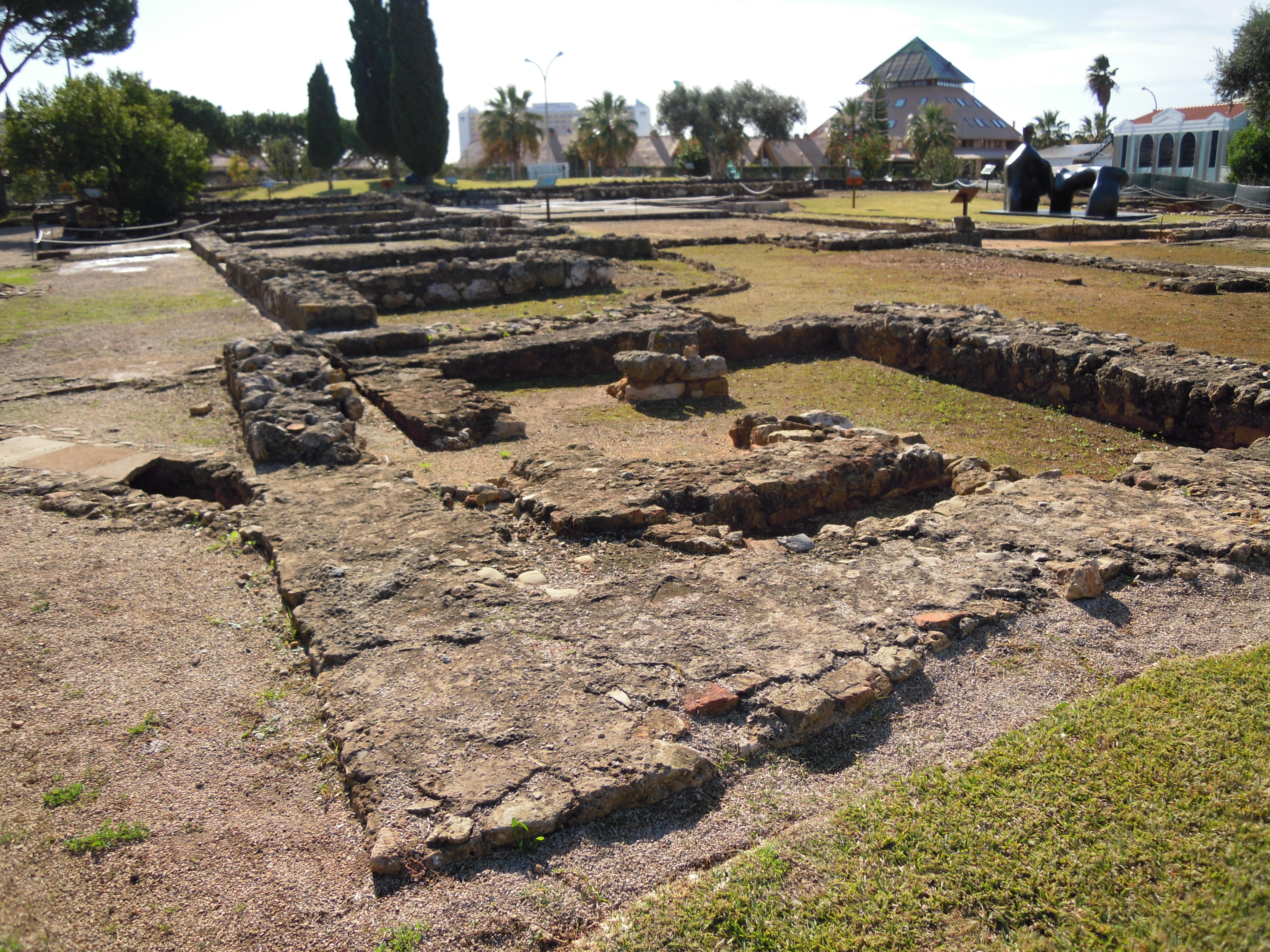 The Roman Ruins of the Villa at Cerro da Vila in the resort of Vilamoura, Loule, Algarve, Portugal